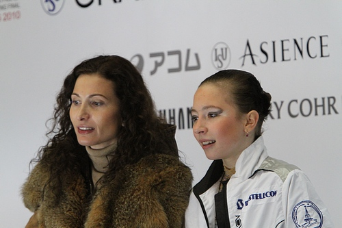 Polina Shelepen with their coache Eteri Tutberidze at the 2010-2011 Junior Grand Prix of Figure Skating Final.